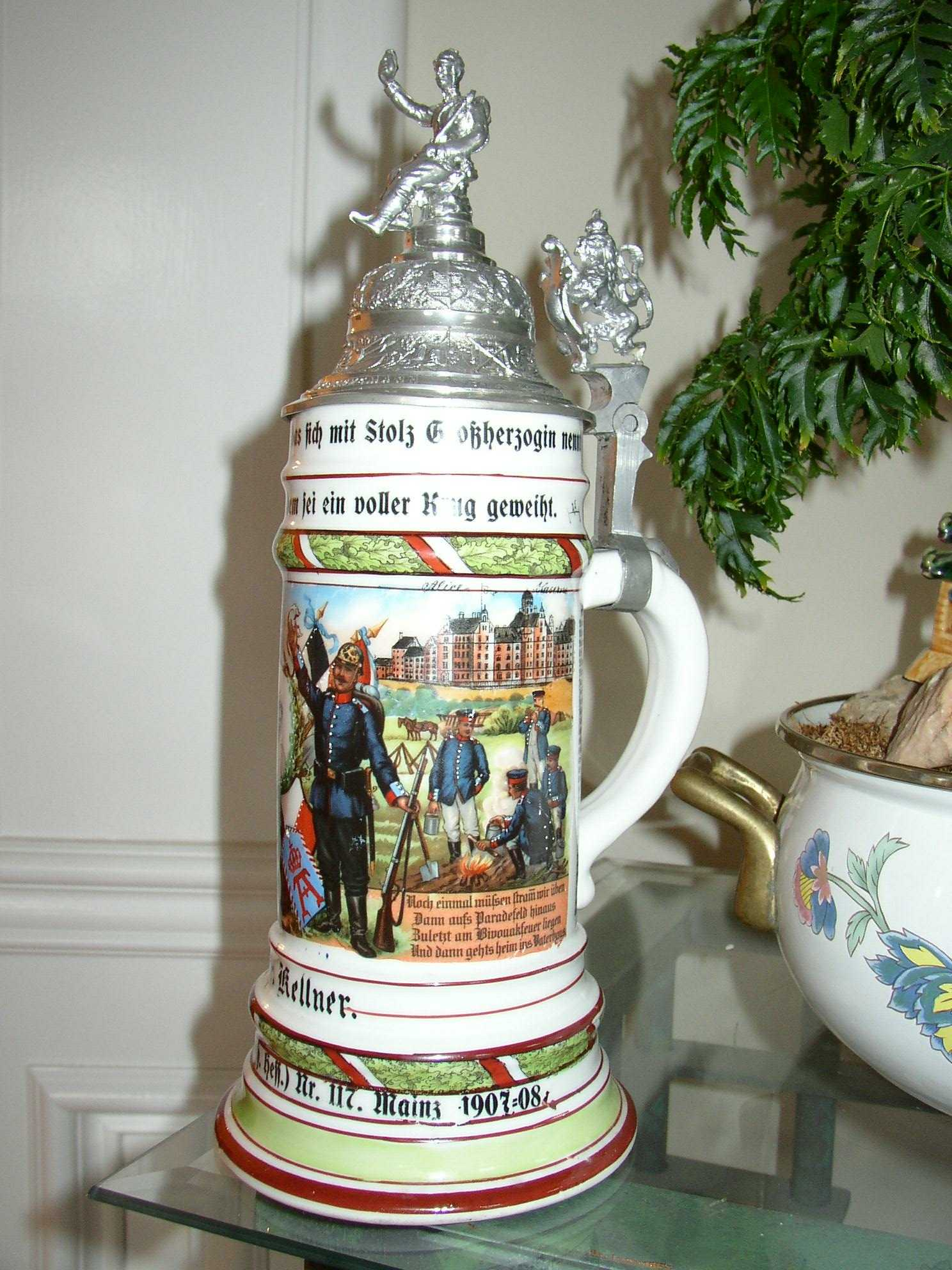 Beer Stein owned by Friedrich Kellner to commemorate his reserve duty in the Kaiser's army 1907 - 1908. He later was on active duty during WWI.